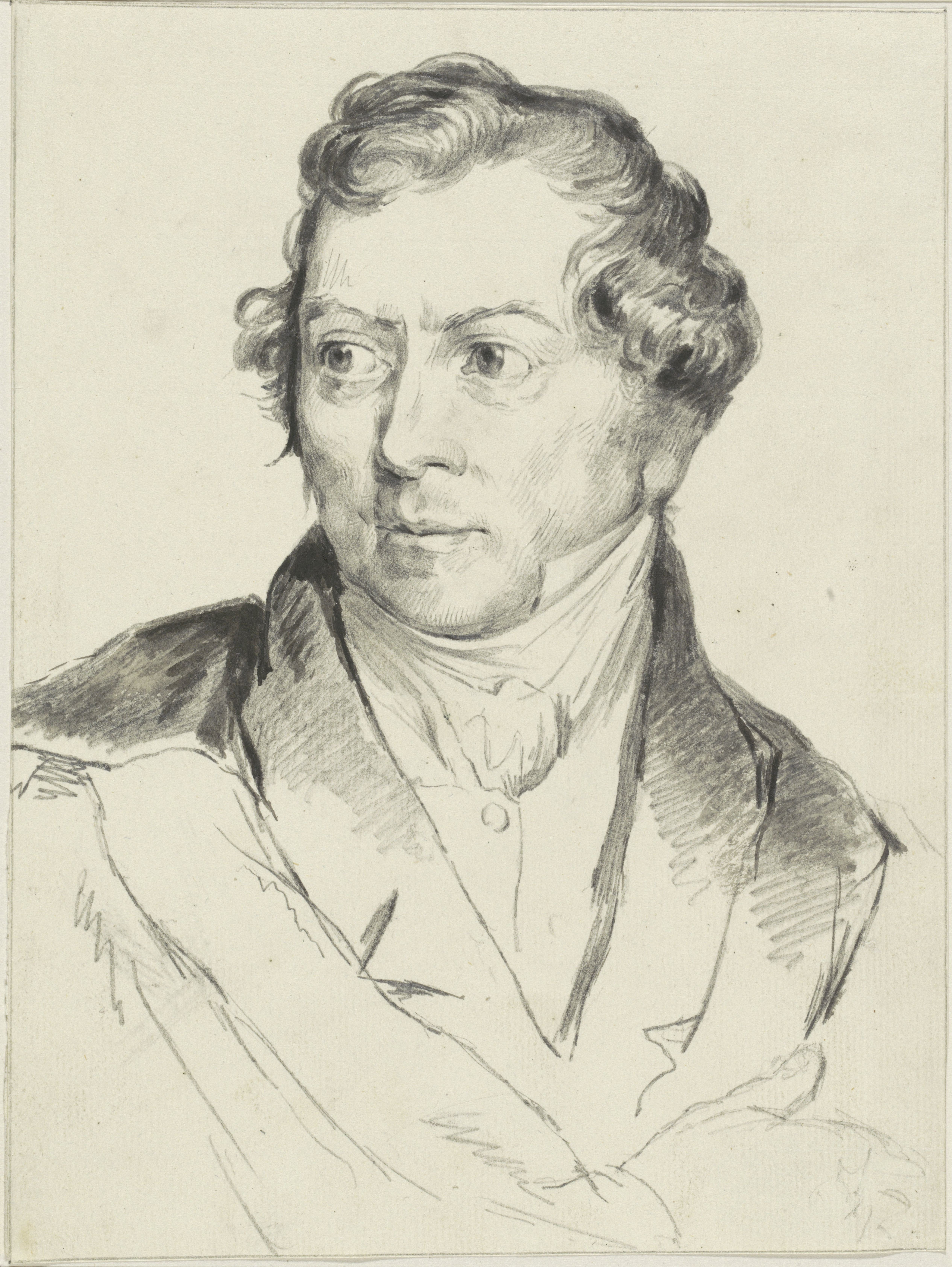 Portrait of Hendrik Voogd, dutch painter